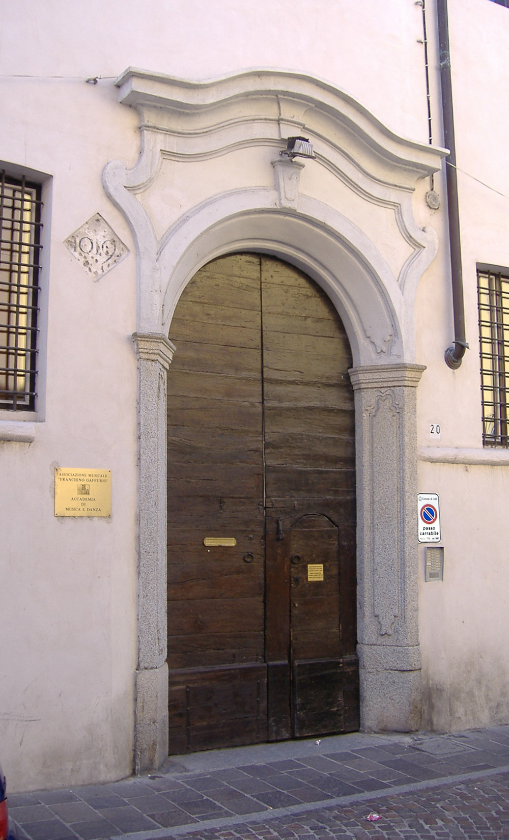 Musical Association Franchino Gaffurio (entrance) - Lodi Italy